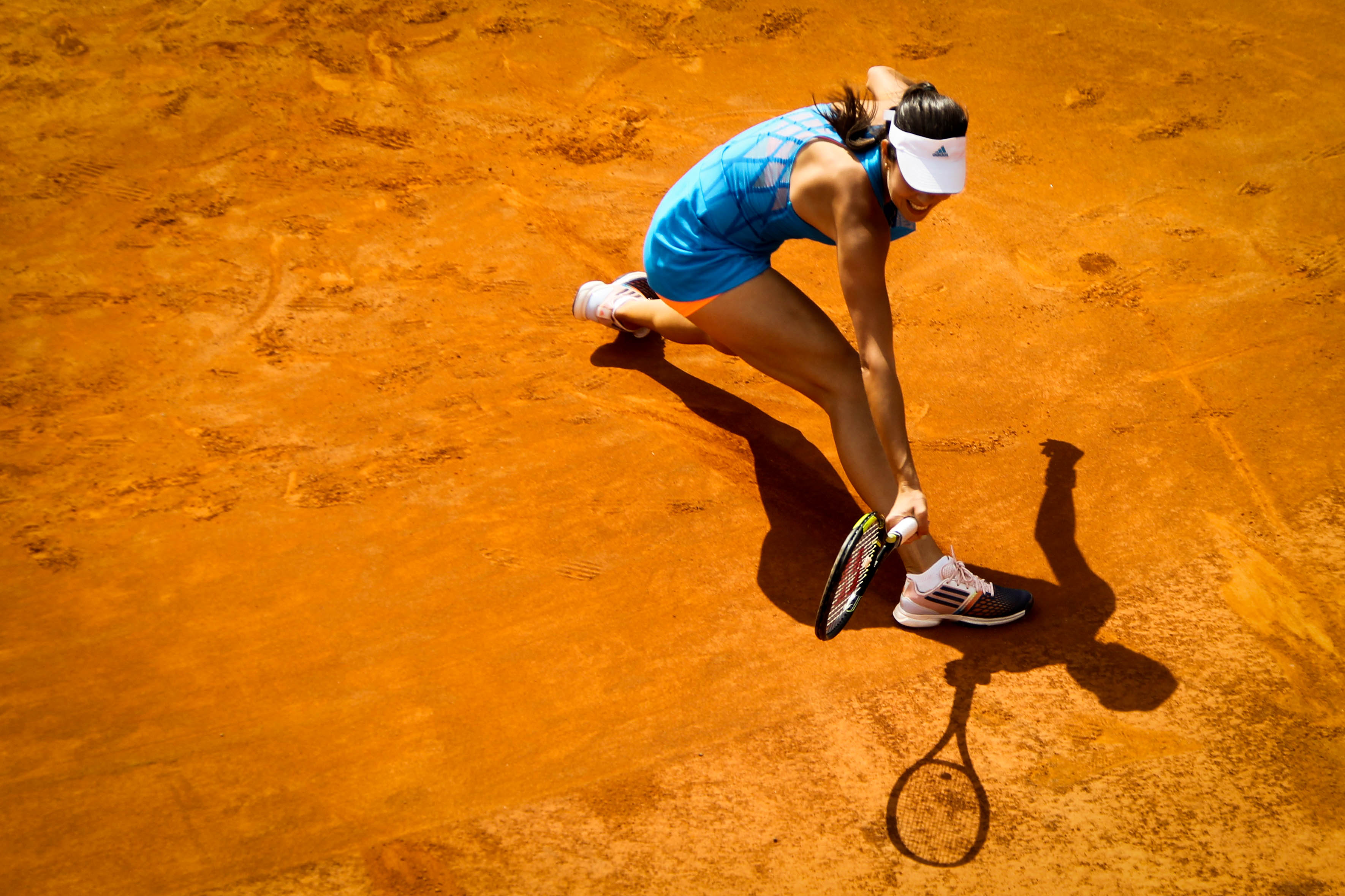 Ana Ivanovic in action at the 2014 Italian Open